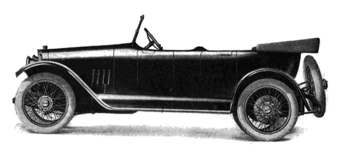 Ben Hur touring car, 1917